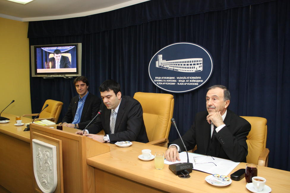 Ilija Ćosić